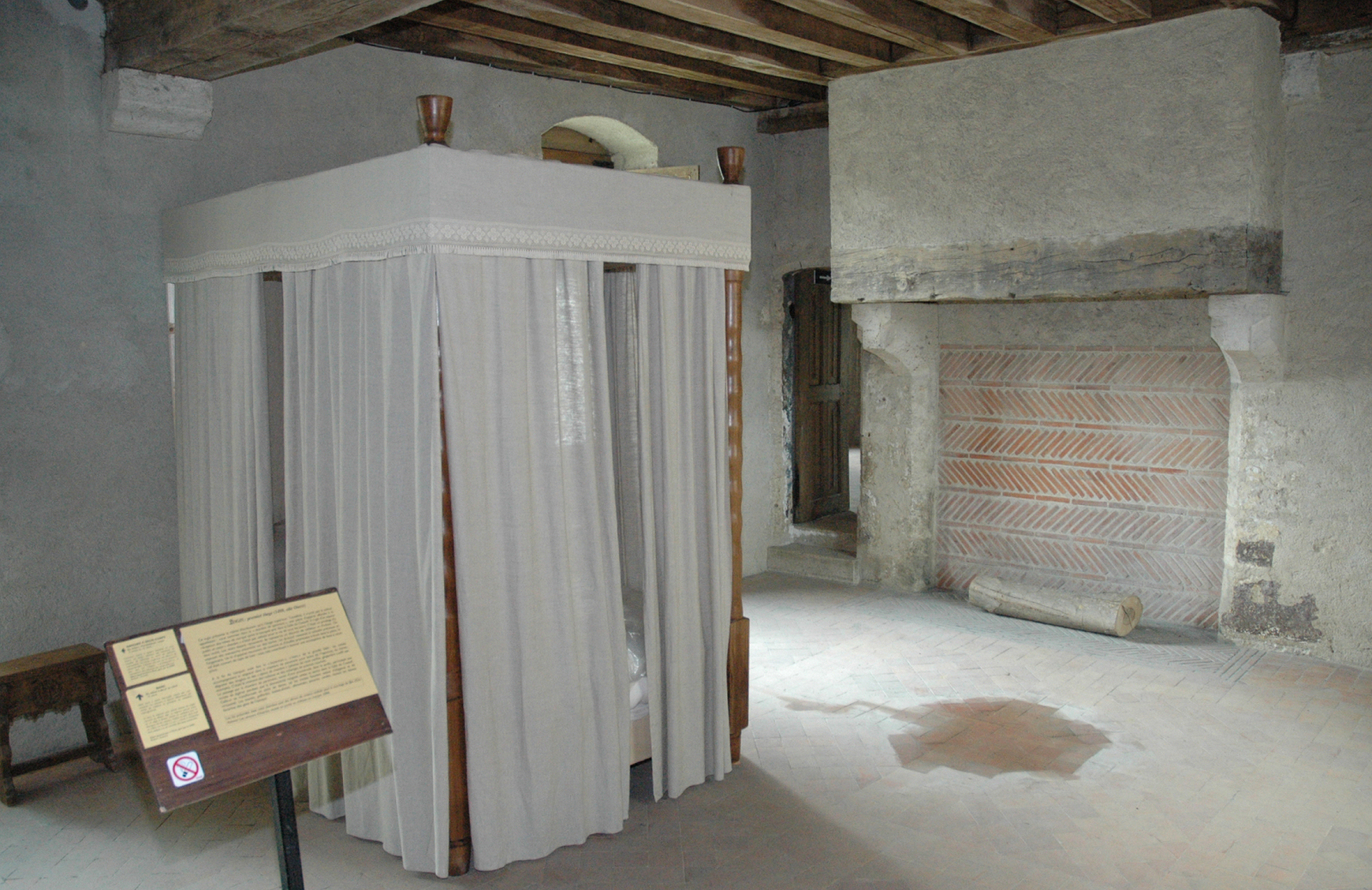 Château de Fougères-sur-Bièvre, logis